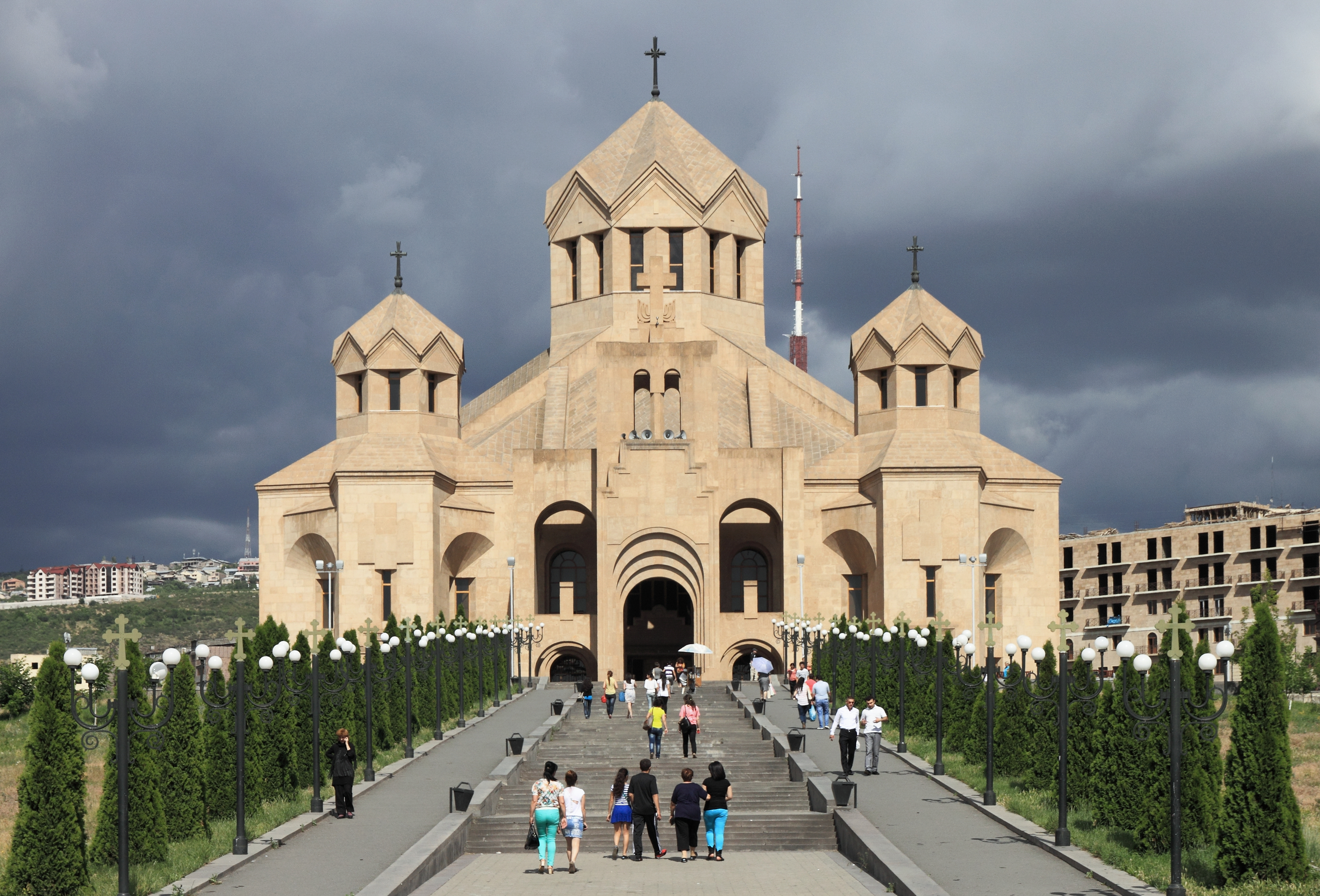 Saint Gregory the Illuminator Cathedral. Yerevan, Armenia.